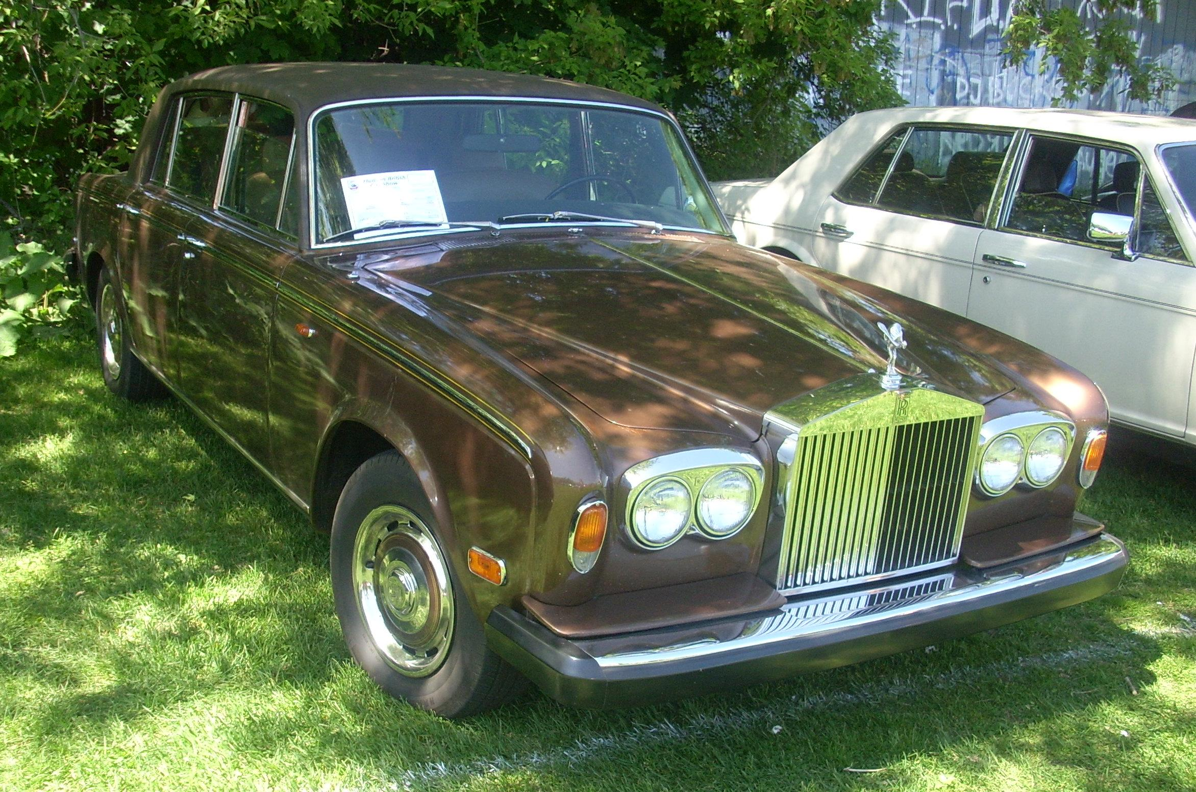 1975 Rolls-Royce Silver Shadow photographed at the 2008 Hudson British Auto Show.